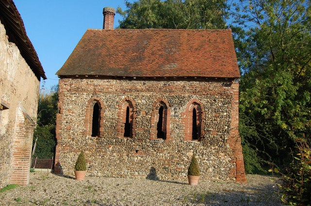 Monastic Building, Little Coggeshall Abbey (Guest House, later Boiler House}